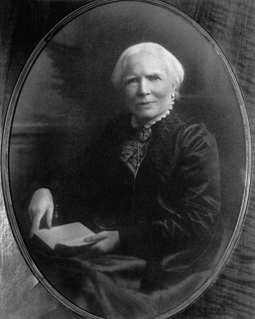 portrait of Elizabeth Blackwell